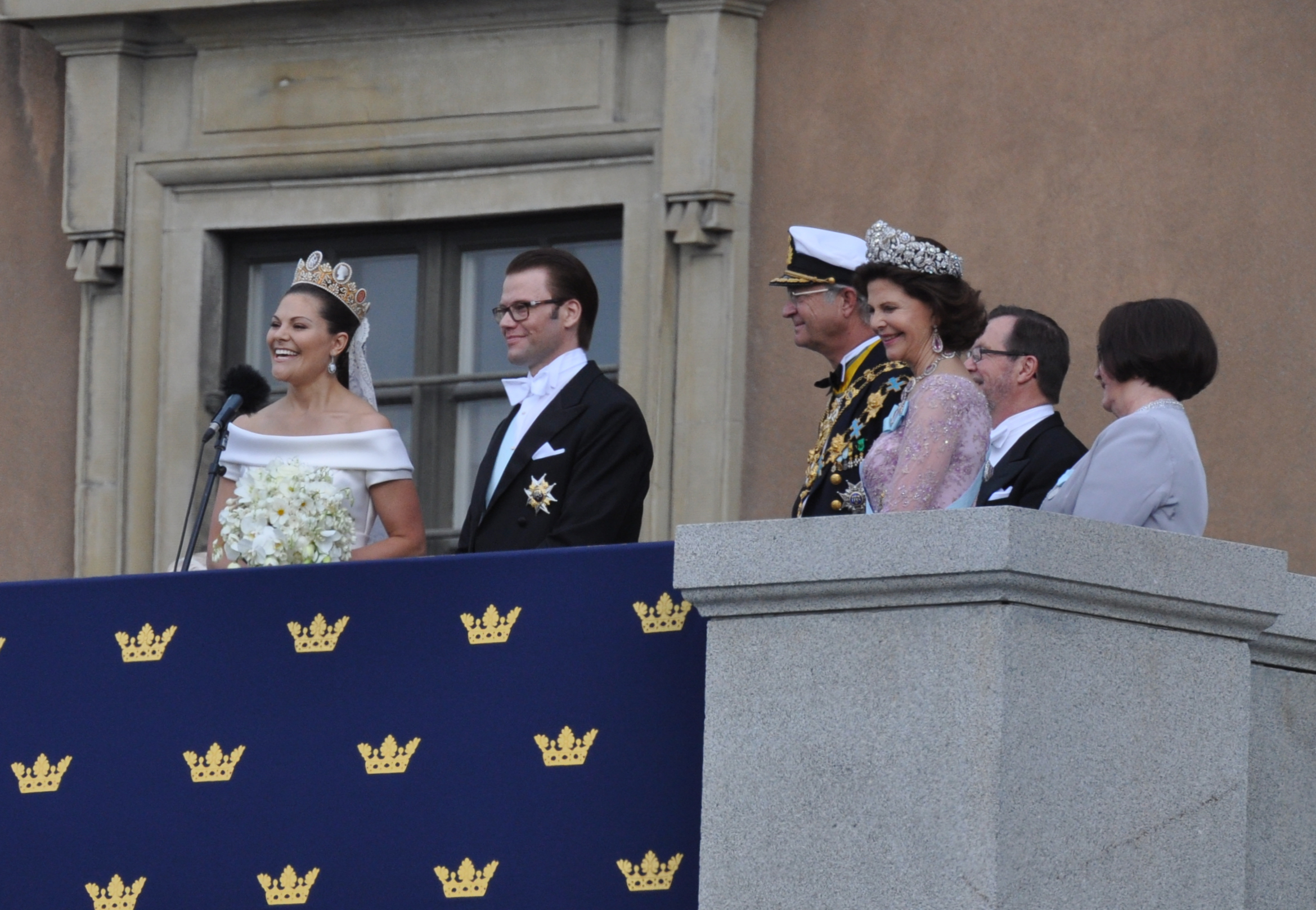 Wedding of Victoria, Crown Princess of Sweden, and Daniel Westling; The Couple at Lejonbacken together with Carl XVI Gustaf of Sweden and Queen Silvia of Sweden as well as Daniels parents Olle und Eva Westling.